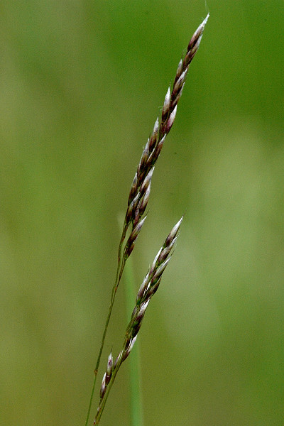 Molinia caerulea from Commanster, Belgian High Ardennes .